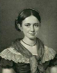 Susanne (Susette) Marie Augustine Peschier Dalgas, married to Joachim Frederik Schouw